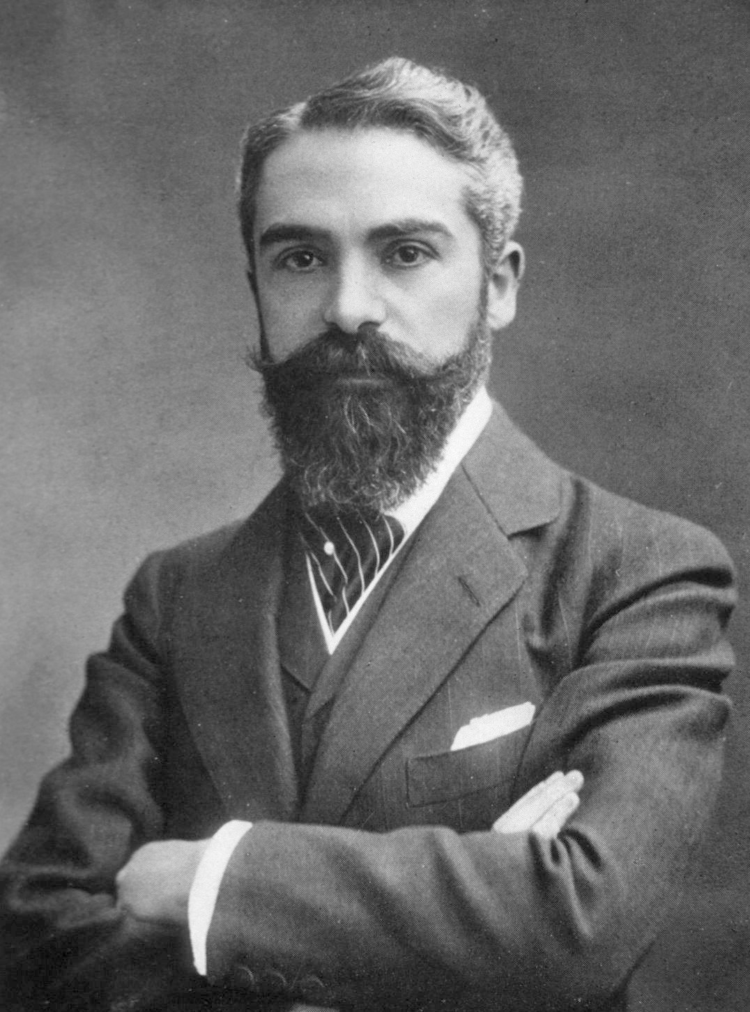 Félix Legueu